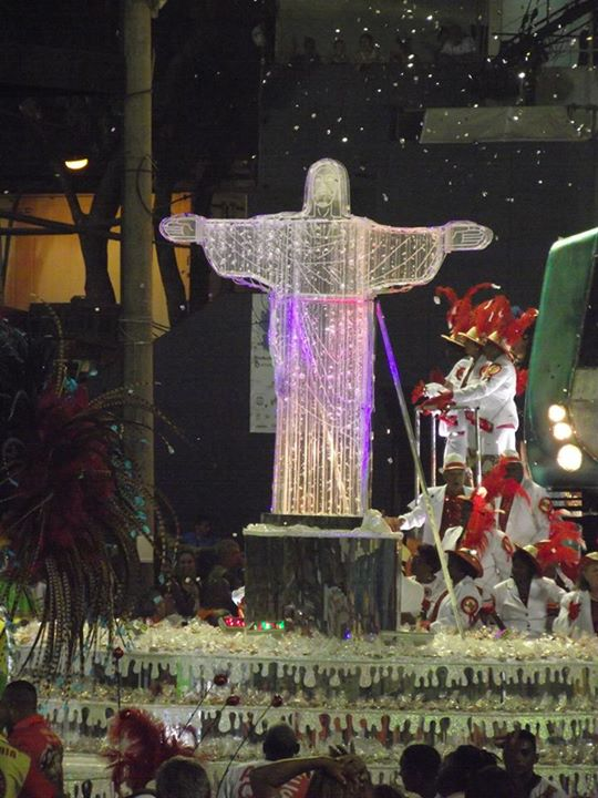 GRES Estácio de Sá